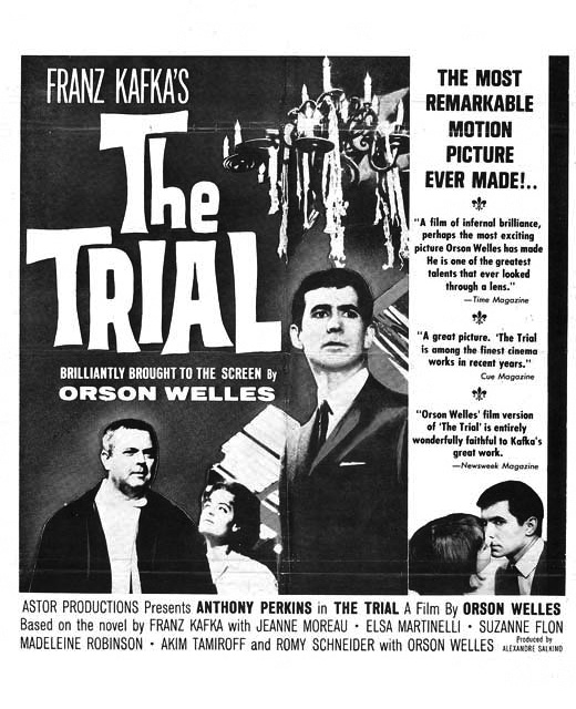 Original US release poster for the film The Trial.